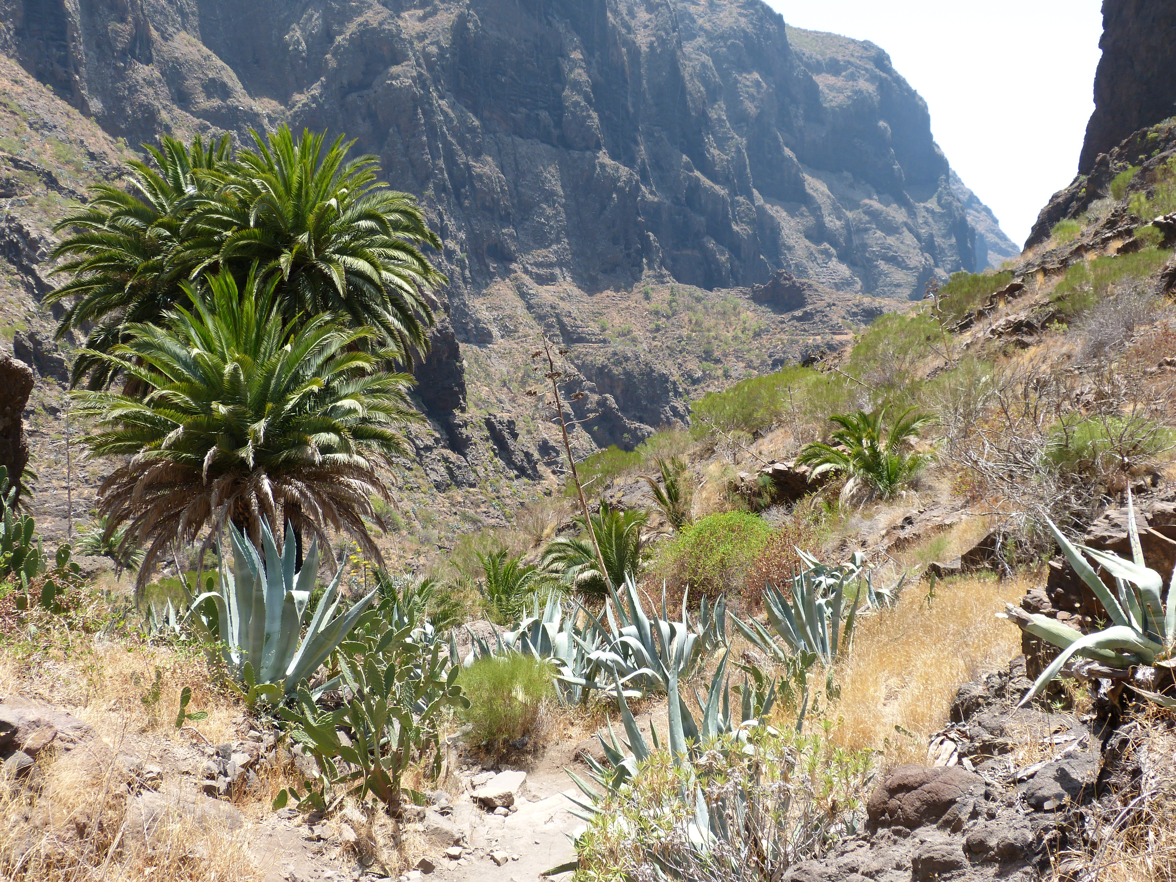 Palm Tree Canyon, taken in Los Gigantes/Tenerife.